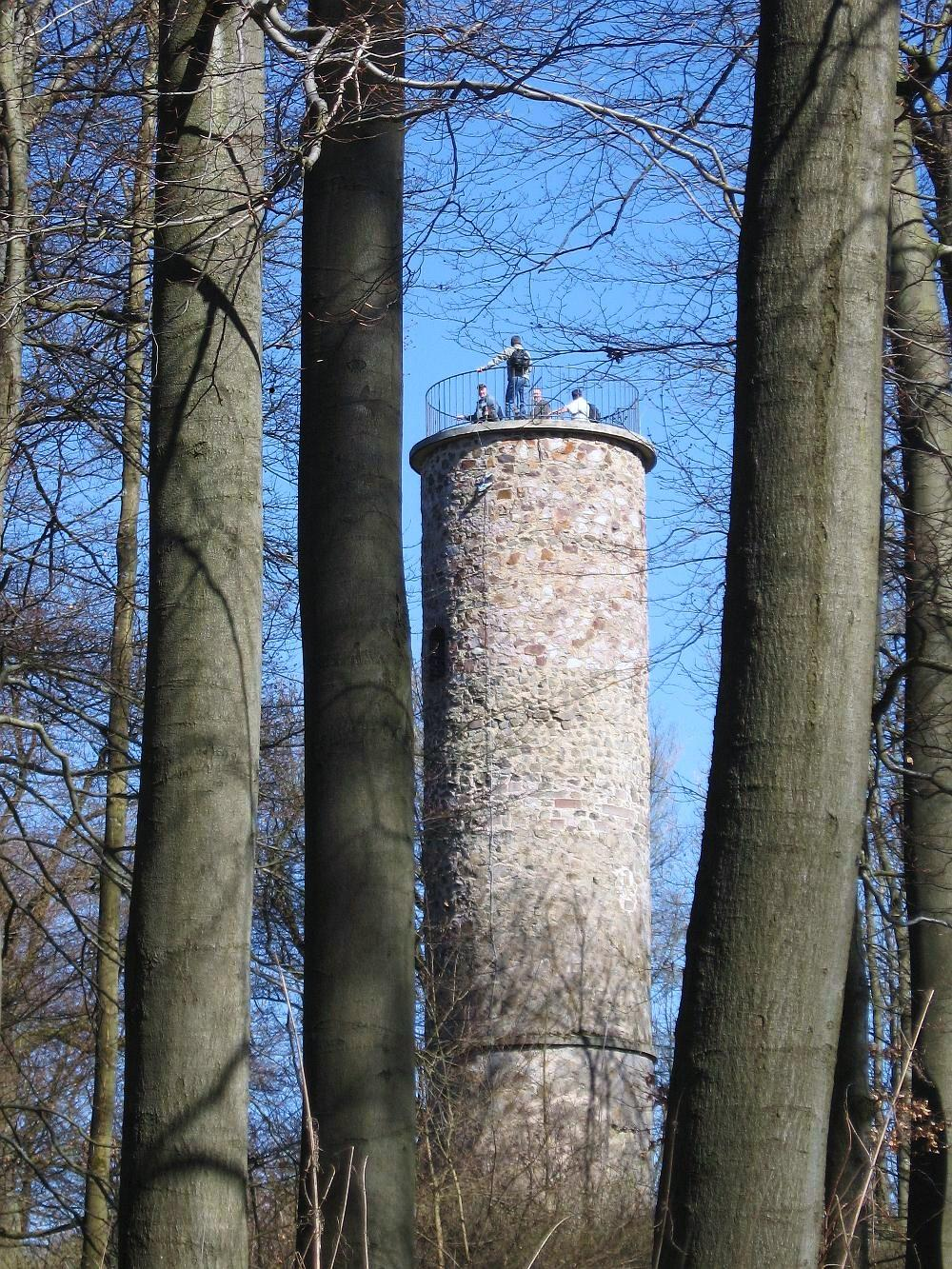 Germany / Hesse /Bad Wildungen: Look-out at the Homberg near the town